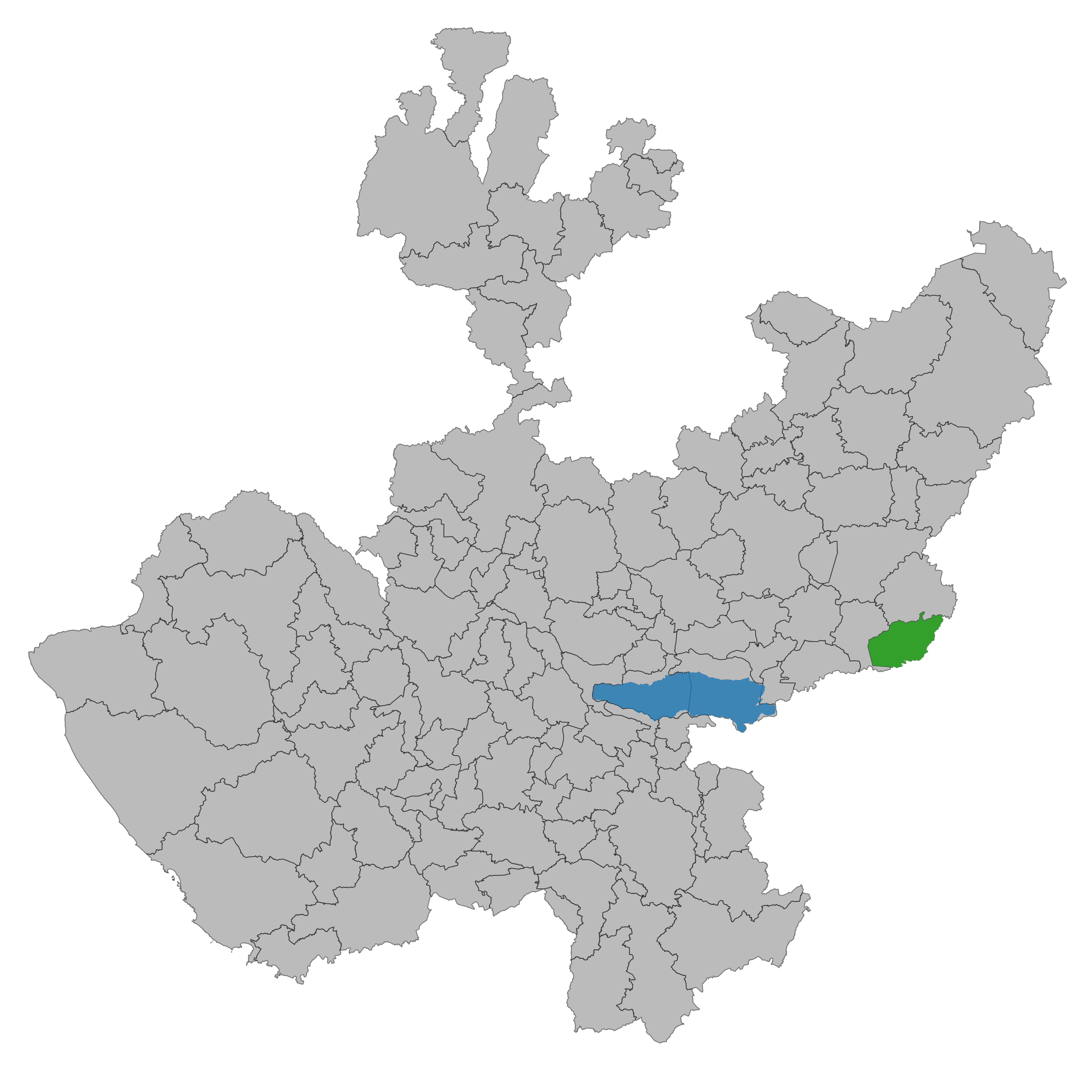 Municipality of Jalisco. Prepared with the software QGIS version 2.8.2 Wien & with information of SCINCE 2010 version 05/2013